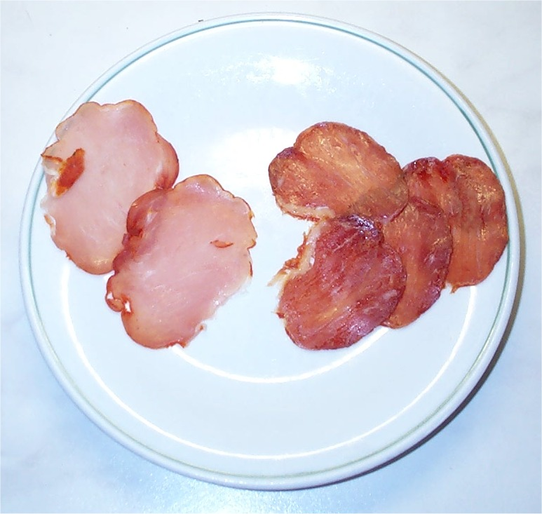 Two different varieties of sliced Spanish Lomo on a plate.